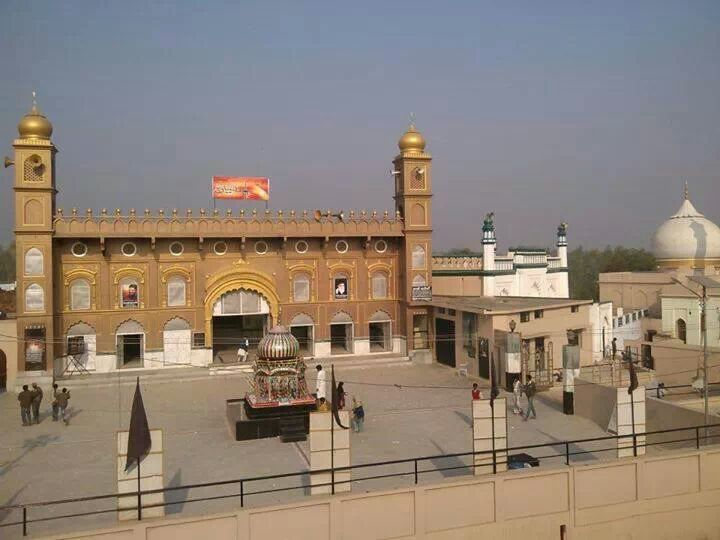 this photograph has been taken on the morning of 10th moharram shows at once Bada Tazia, jama masjid and dargah.